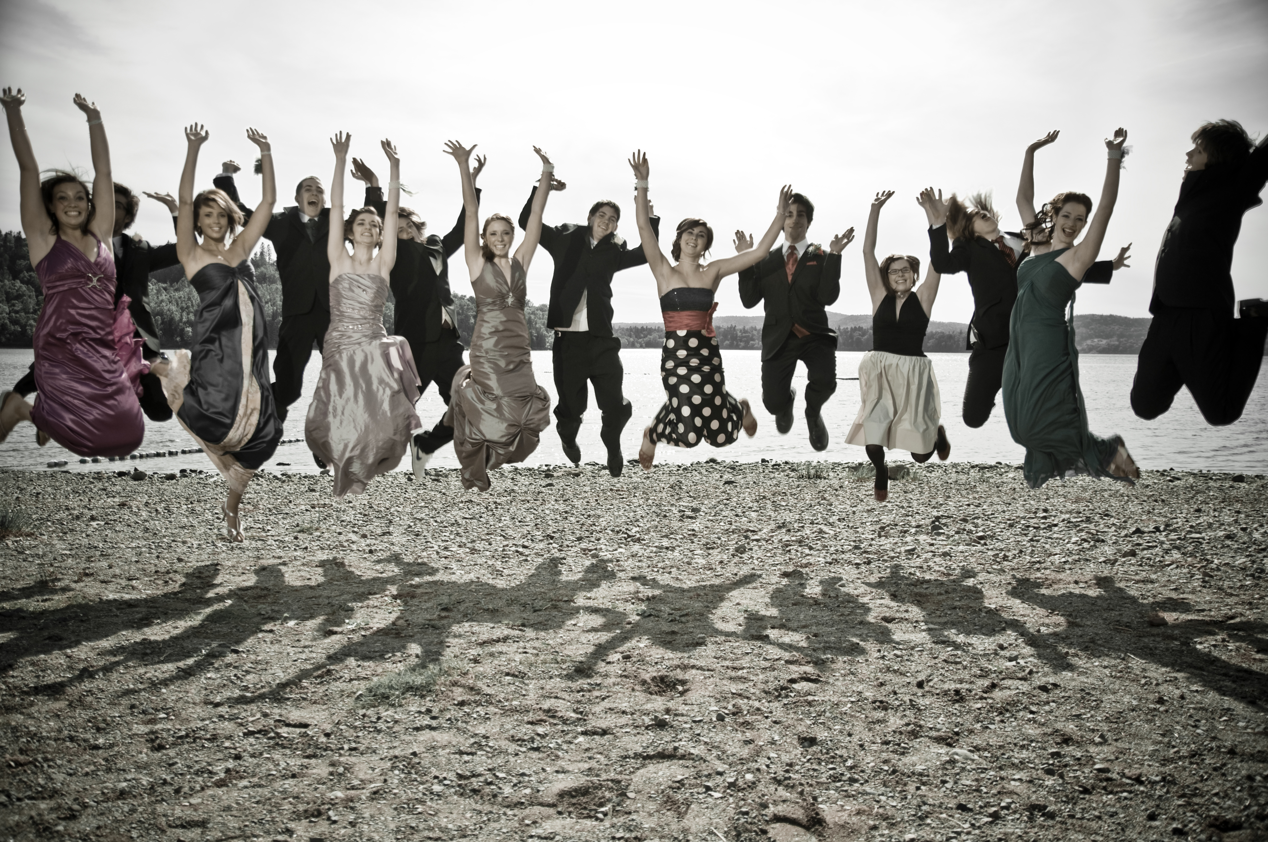 It was my brother in-law's prom this week, so I happily volunteered to do photos for him and his friends. This was probably my favorite shot of the day. Strobist info: - Sun high and behind subjects - Ezybox hotshoe high and in front of camera, just out of frame. With SB-26 on 1/2 power (triggered with skyports) - 3 stop ND filter on the lens so I could shoot at 1/200 and reasonable aperture. Become a Fan on Facebook Follow Me on Twitter